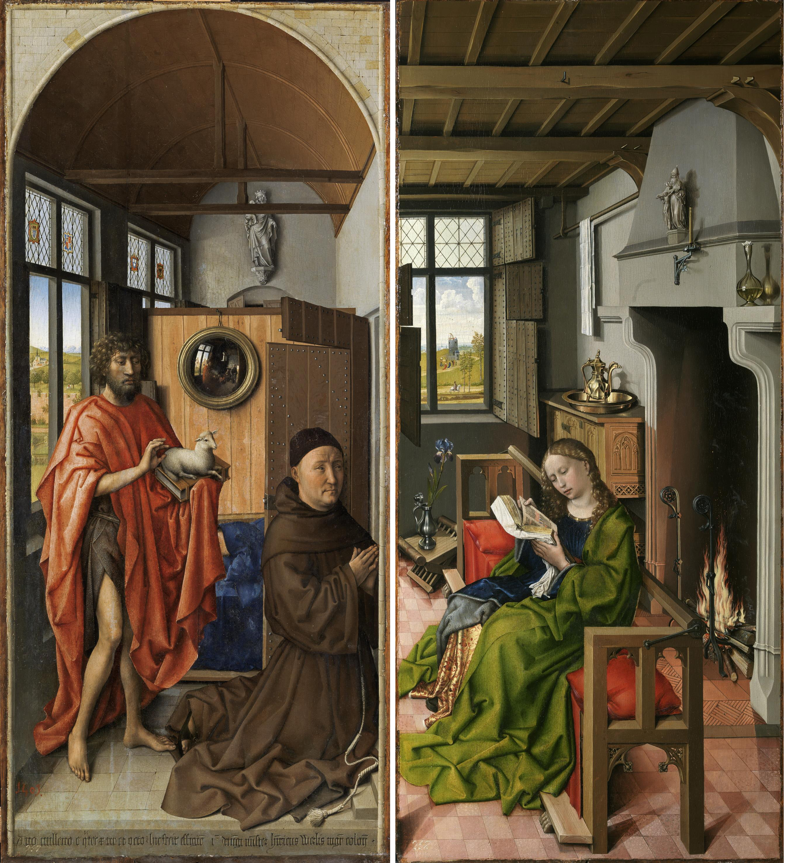 Werl-Triptychons, Prado Museum